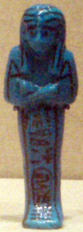 Shabti of the pharaoh Pinudjem I.